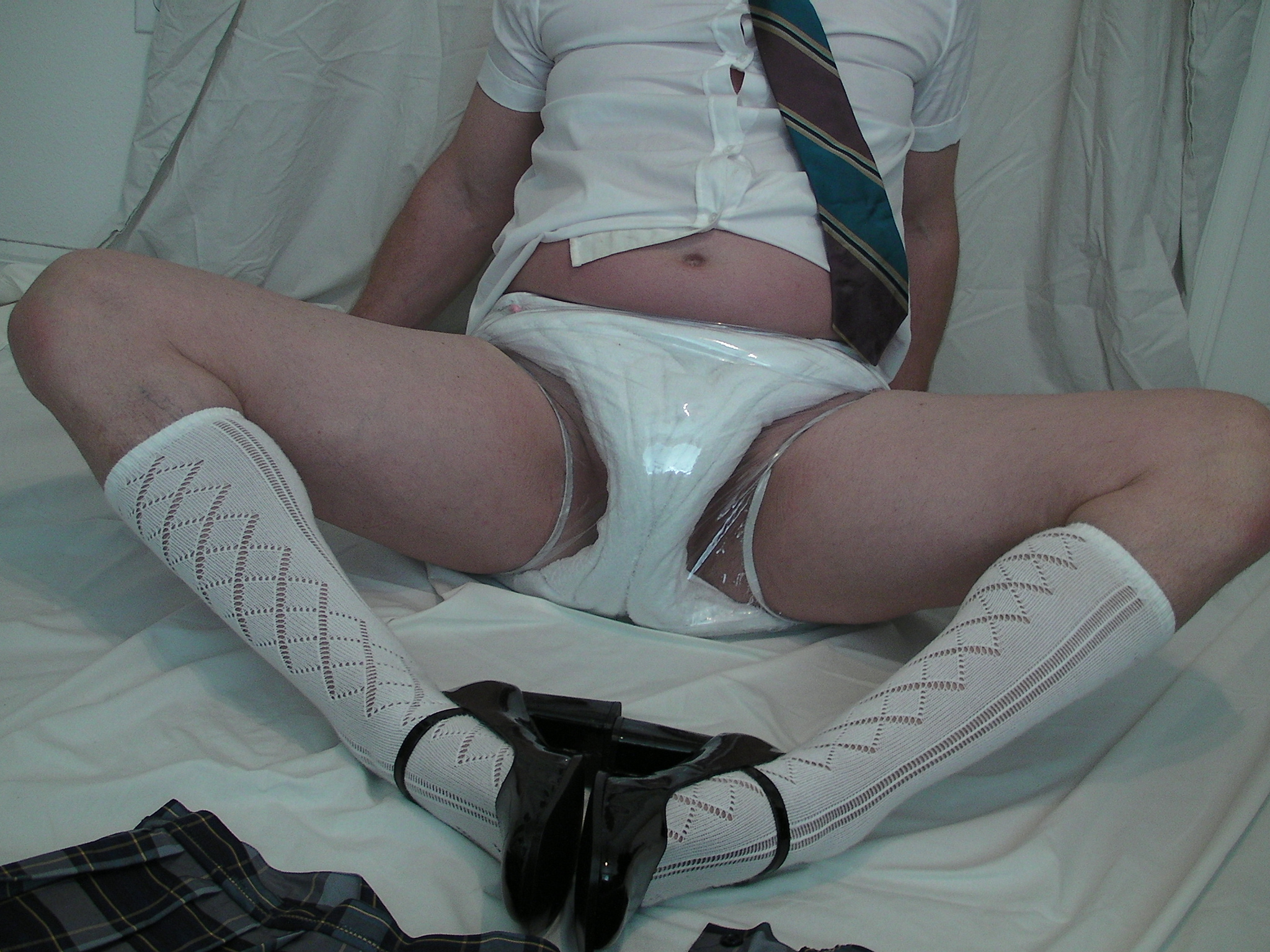 A man wearing a diaper, plastic pants, and a schoolgirl socks and shoes